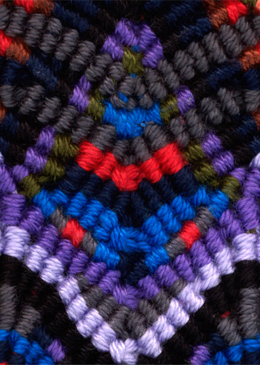 Cavandoli Macrame.